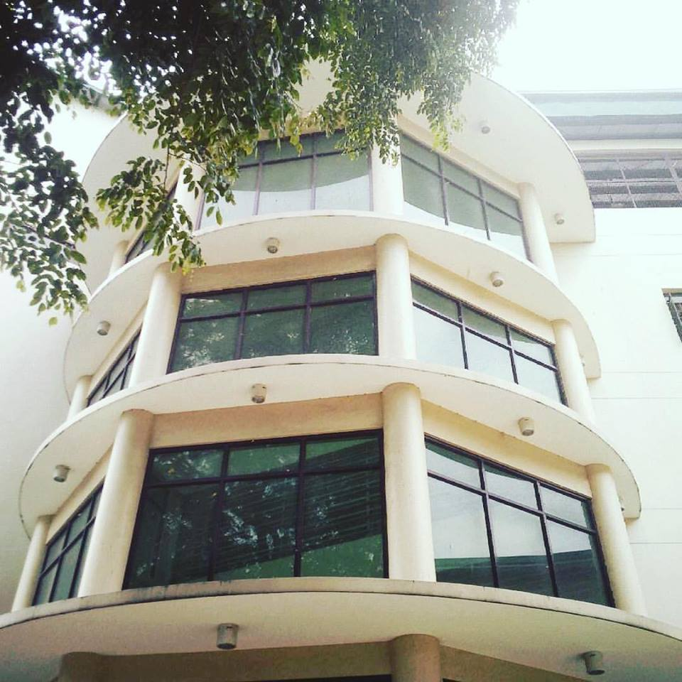 The facade of Pasay City North High School Main Campus.